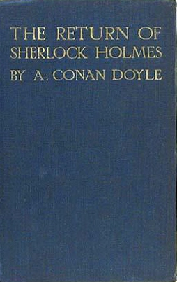 cover of The Return of Sherlock Holmes, by Arthur Conan Doyle to illustrate an article